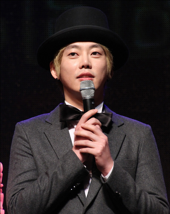 Tei (singer) at Operastar 2011, in Feb 2011